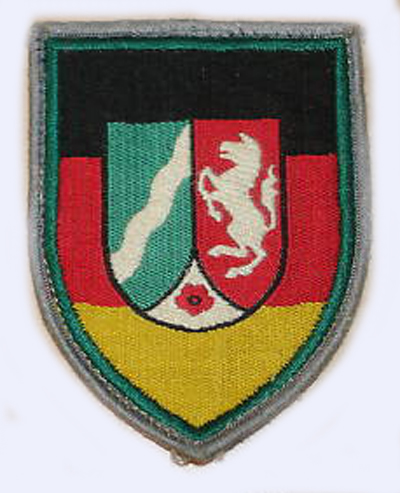 Home Defense Brigade 53